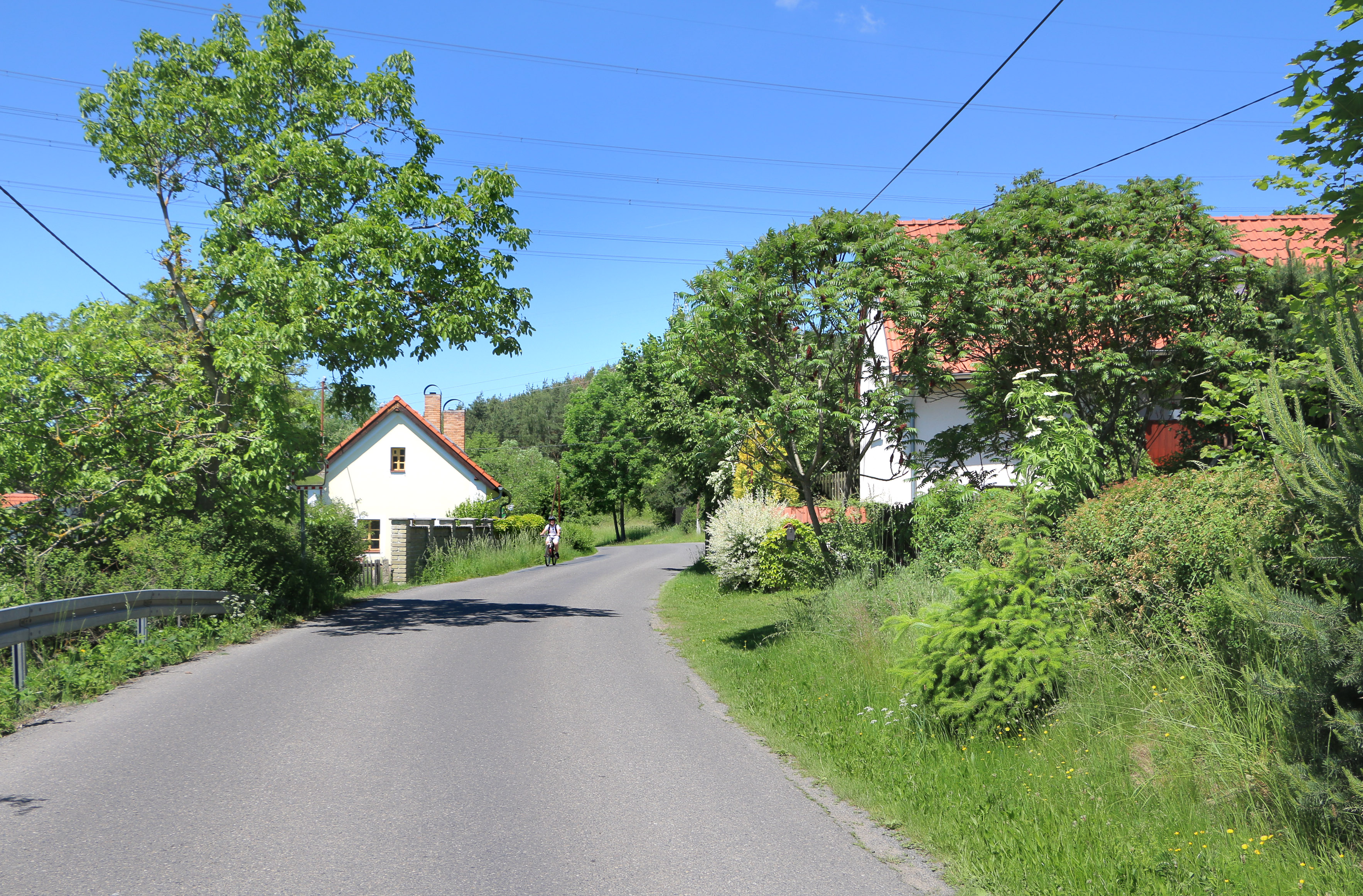 Lipiny, part of Nečín, Czech Republic.